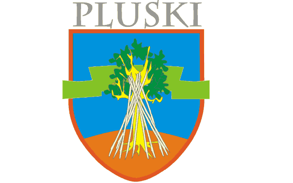 Emblem of Pluski